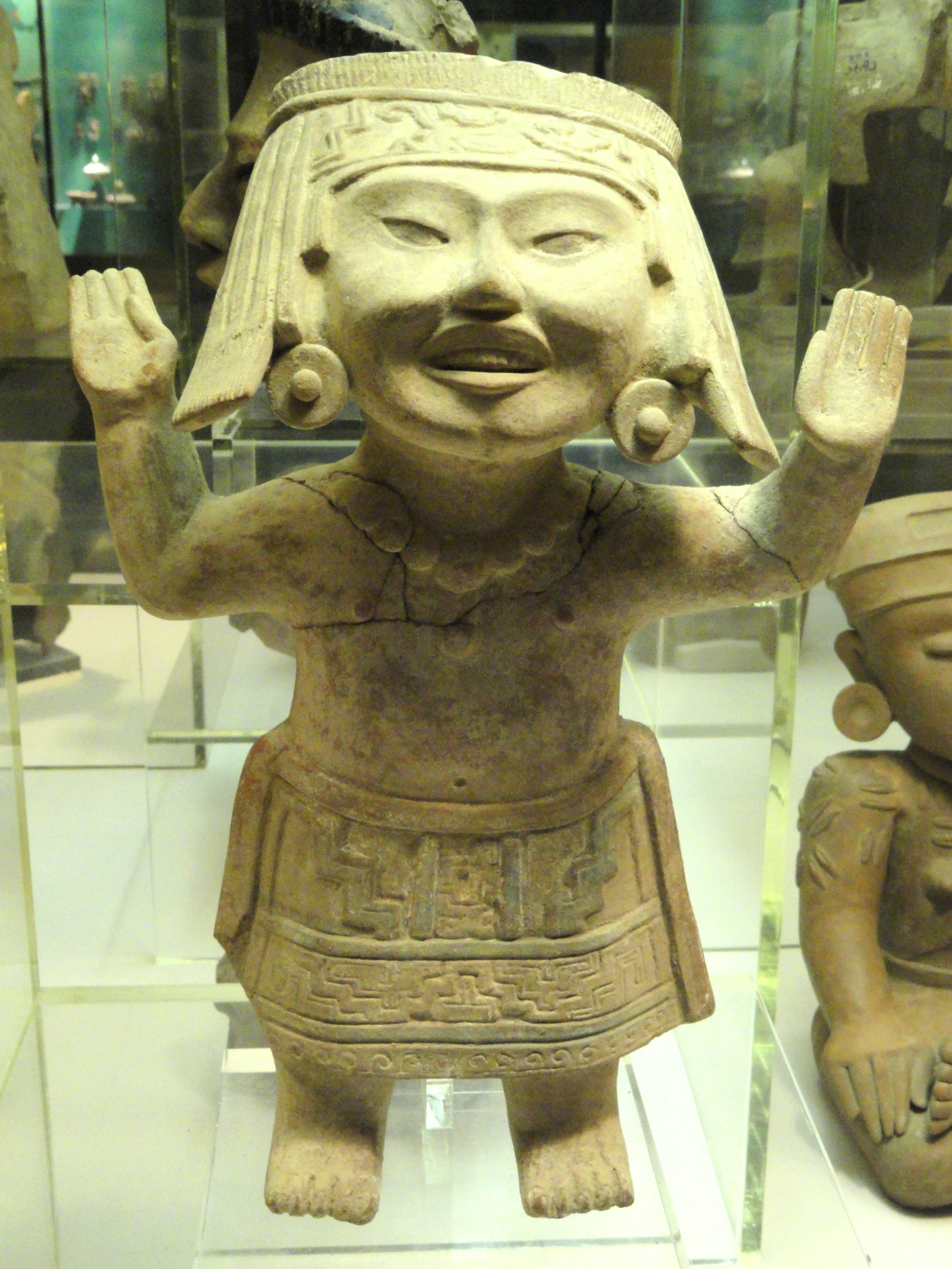 Exhibit in the Mesoamerican collection of the American Museum of Natural History, Manhattan, New York City, New York, USA.